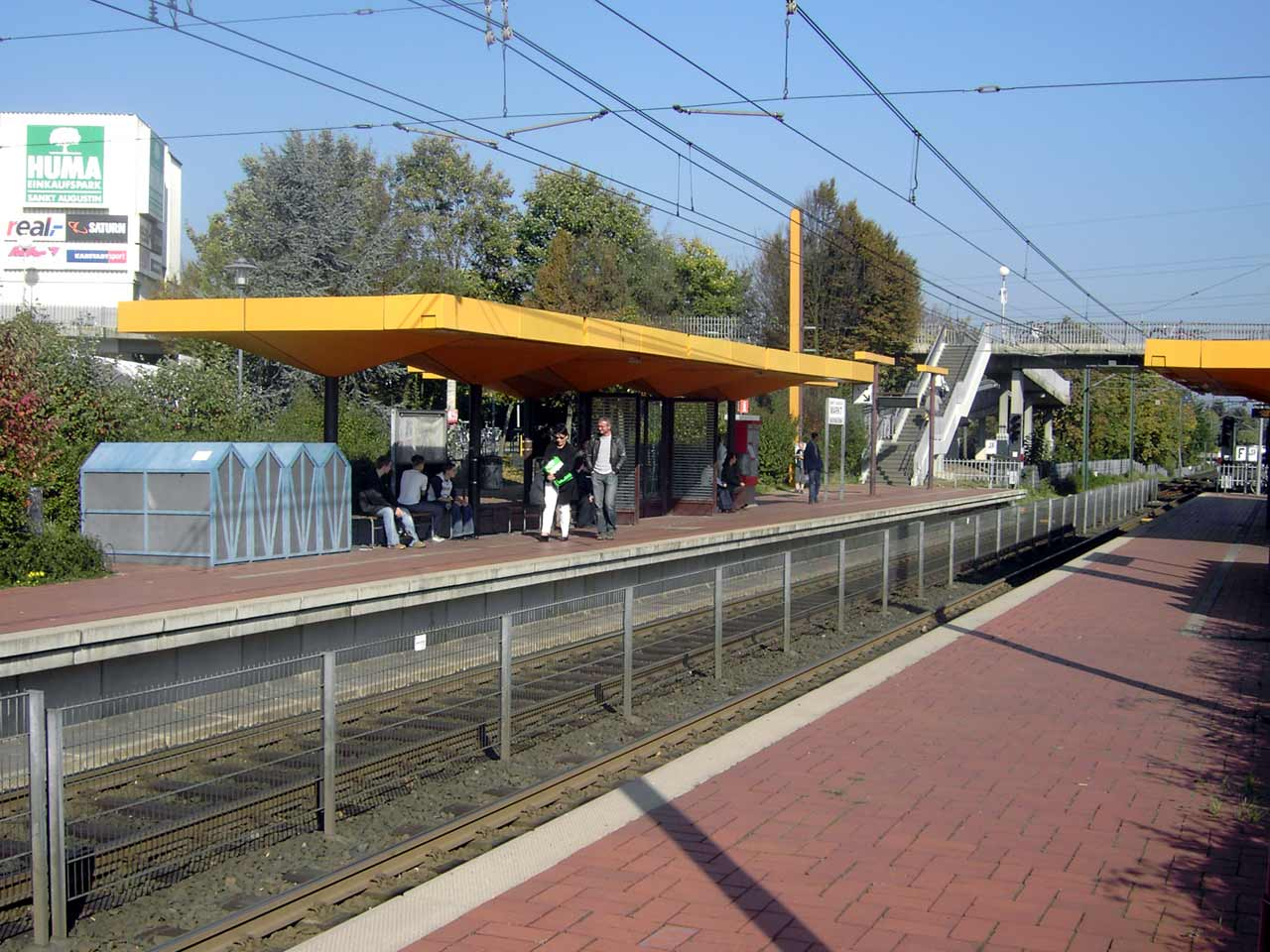 Urban railway stop Sankt Augustin Markt of the Siegburger Bahn in Sankt Augustin.